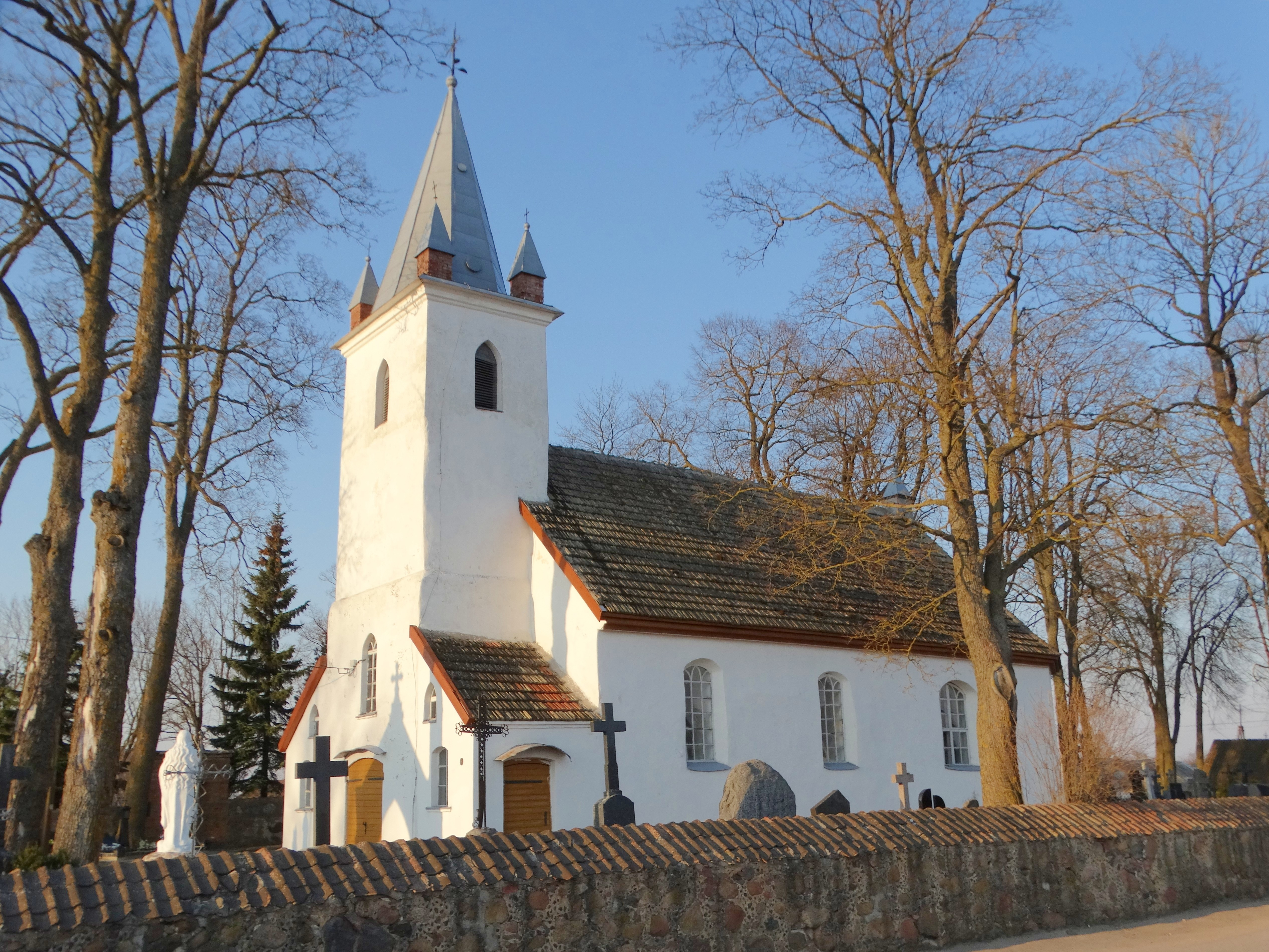 Roman Catholic Church of Saint Nicholas, Žarėnai, Šiauliai district, Lithuania